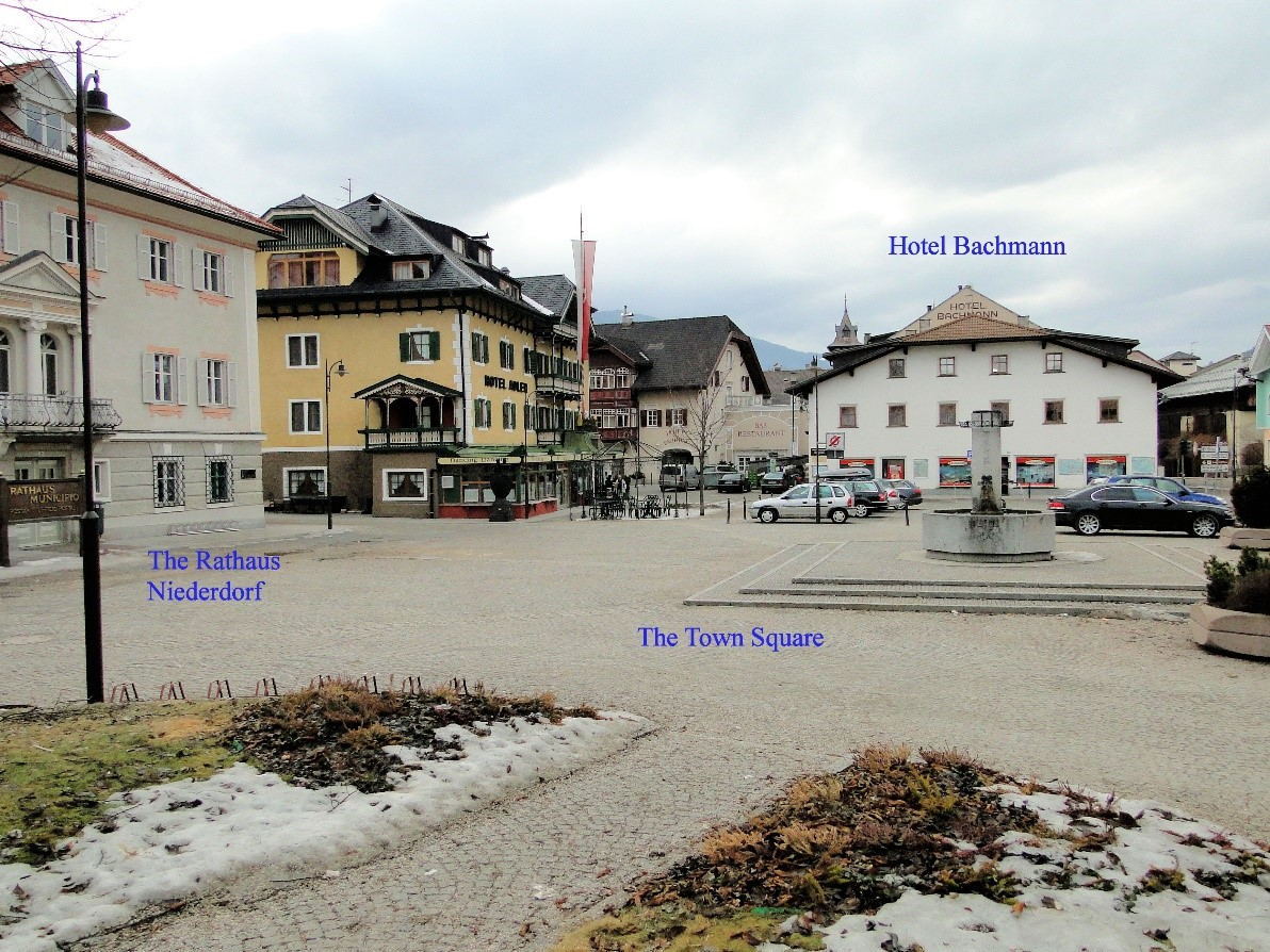 Niederdorf. The scene of the denouement between the SS and the Wehrmacht on Monday 30th April 1945 Photo Credit: Courtesy of Ian Sayer Archive